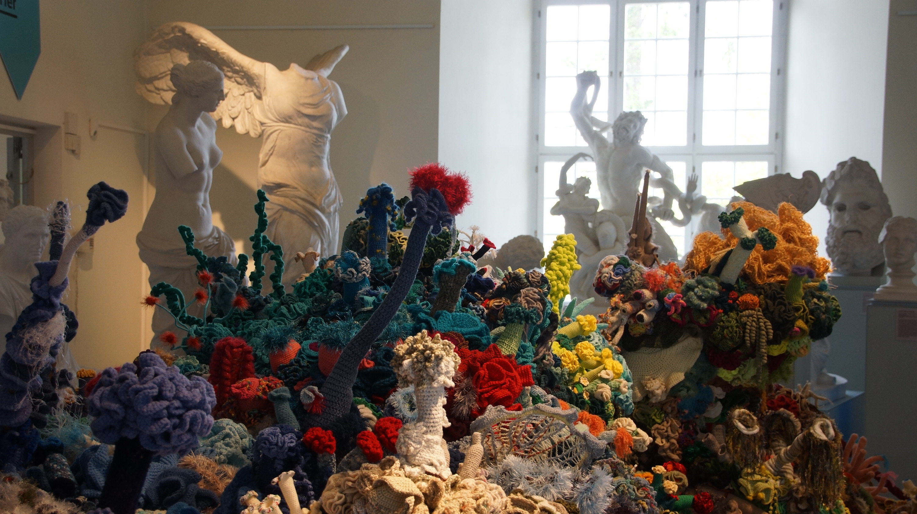 The Föhr Reef is part of the "Hyperbolic Crochet Coral Reef" project and was exhibited in Tübingen (Germany) during the exhibition "Wie Schönes Wissen schafft", from 19. April to 1. September 2013 in the Museum of the University of Tübingen (MUT).